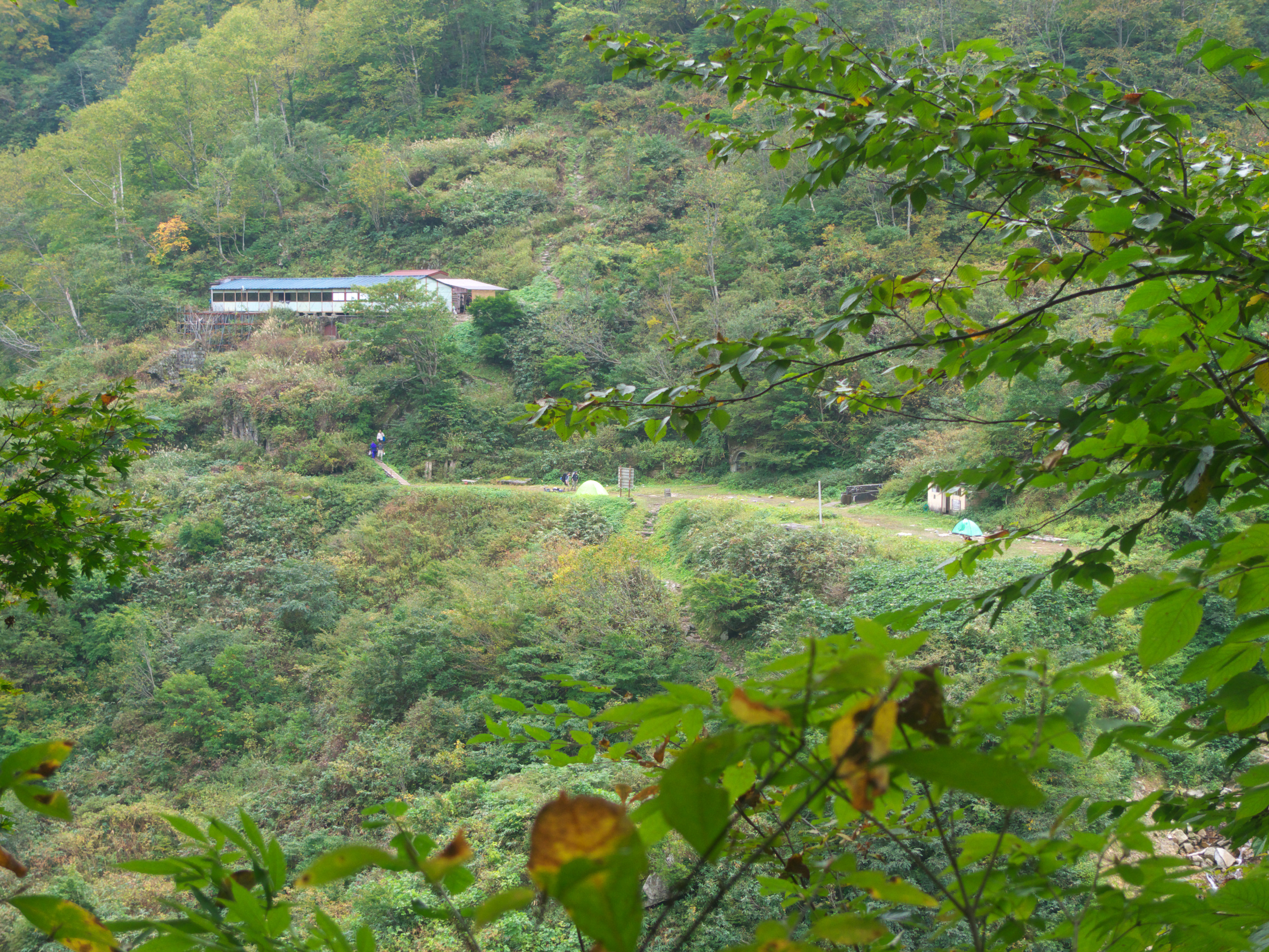 Distant view of Azohara Onsengoya ("Azohara Hot Spring Hut") in Kurobe City, Toyama Prefecture, Japan